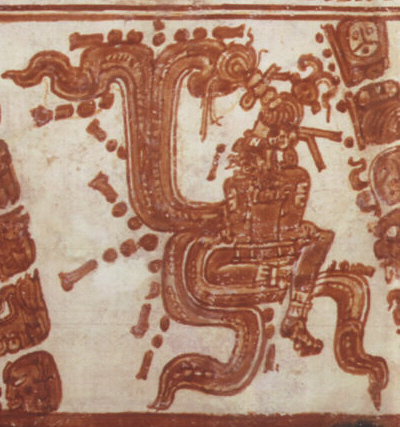 Sun god Kinich Ahau seated with flares